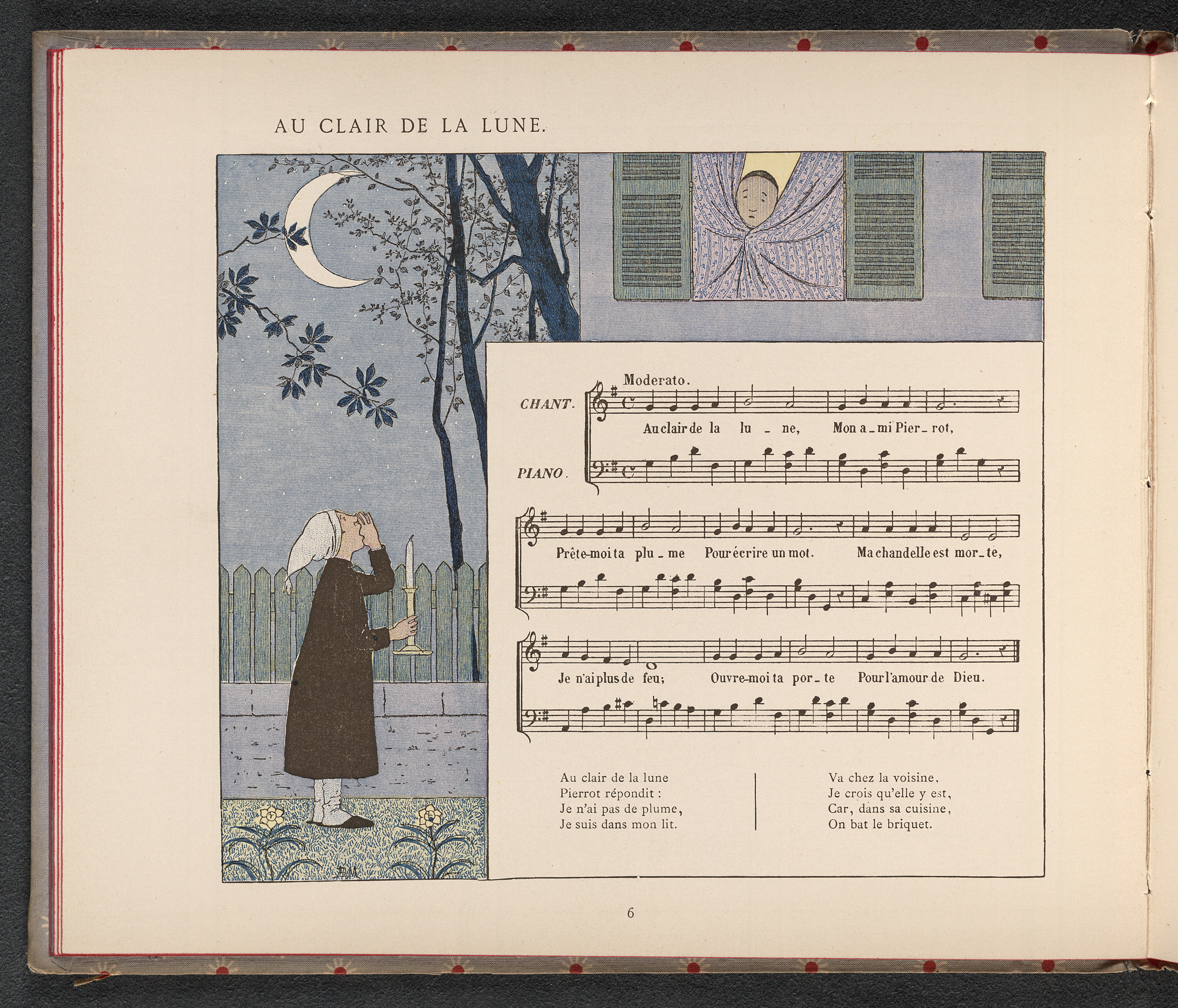 "Au Clair de la Lune", traditional French folk song, reprinted in a French children's book Vieilles Chansons pour les Petits Enfants: Avec Accompagnements